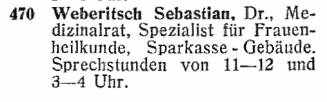 Sebastian Weberitsch's address in South Tyrol's Telephone directory from 1925 (Bozen-Bolzano)